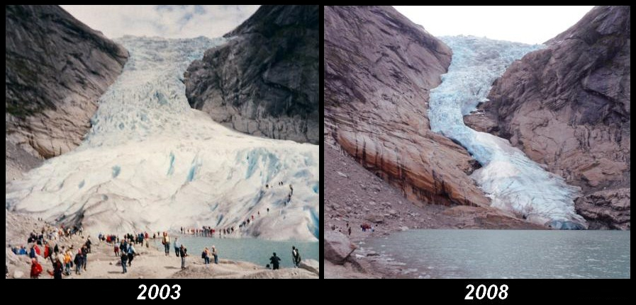 Two views of Briksdalsbreen (The Briksdal glacier) photographed from nearly the same place. The picture on the left has been taken in the end of July in year 2003 and the another picture on the right has been taken on 4th August 2008. The glacier has decreased while the lake below increased.